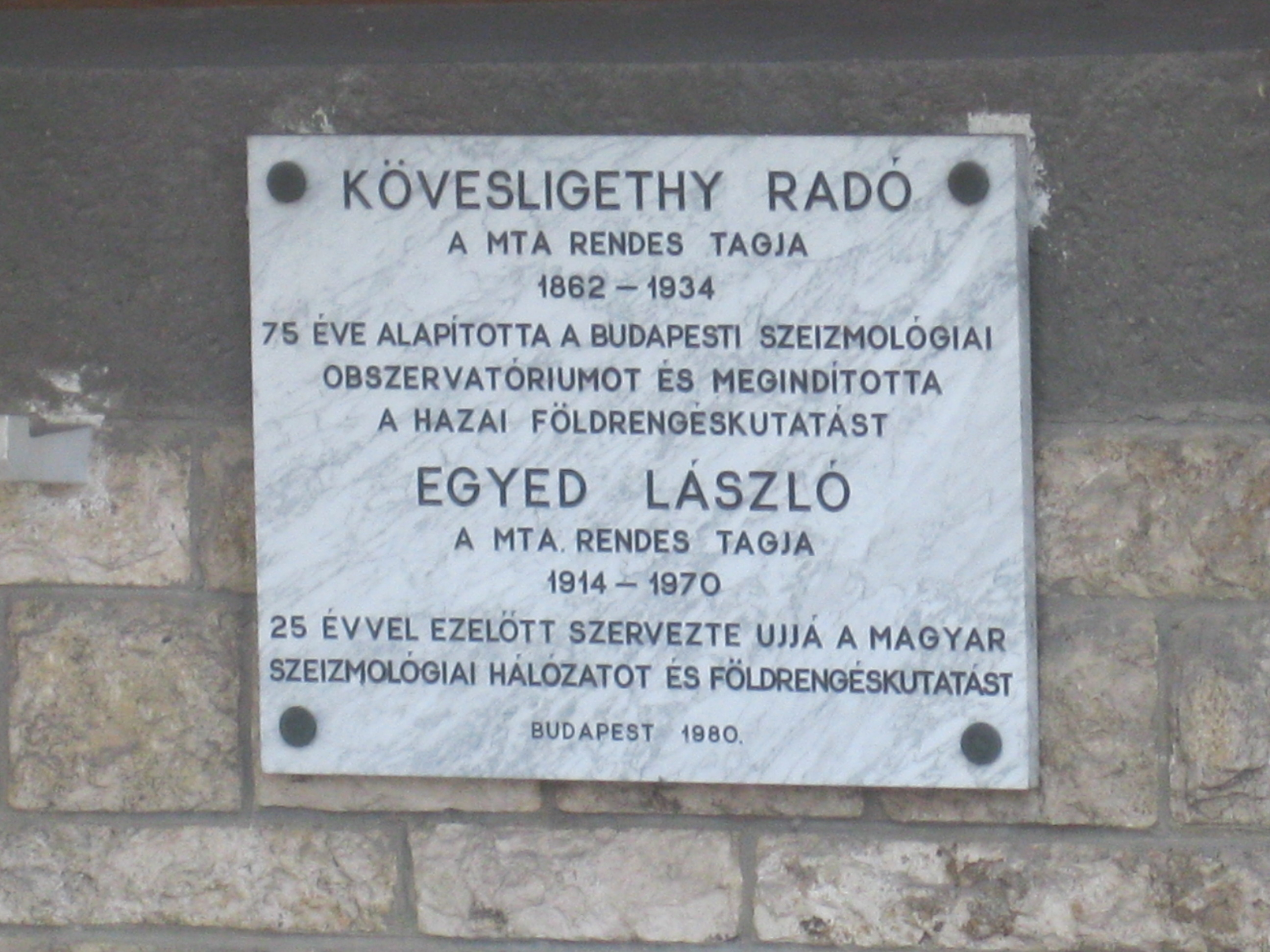 Commemorative plaque of Radó Kövesligethy and László Egyed, Budapest District XI, Meredek Street No 18